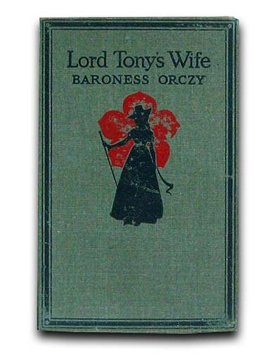 Cover of 1917 1st edition